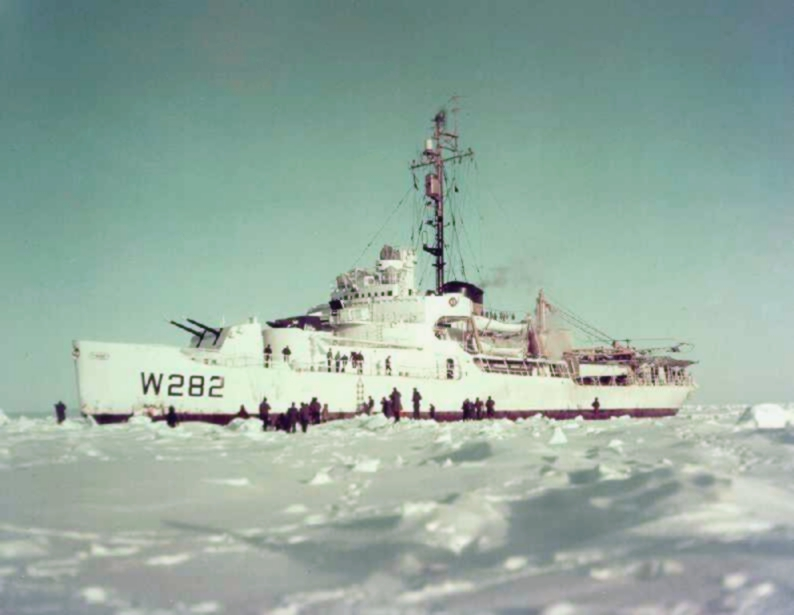 The U.S. Coast Guard icebreaker USCGC NORTHWIND (WAGB-282)in Arctic ice pack ca. 1960's.